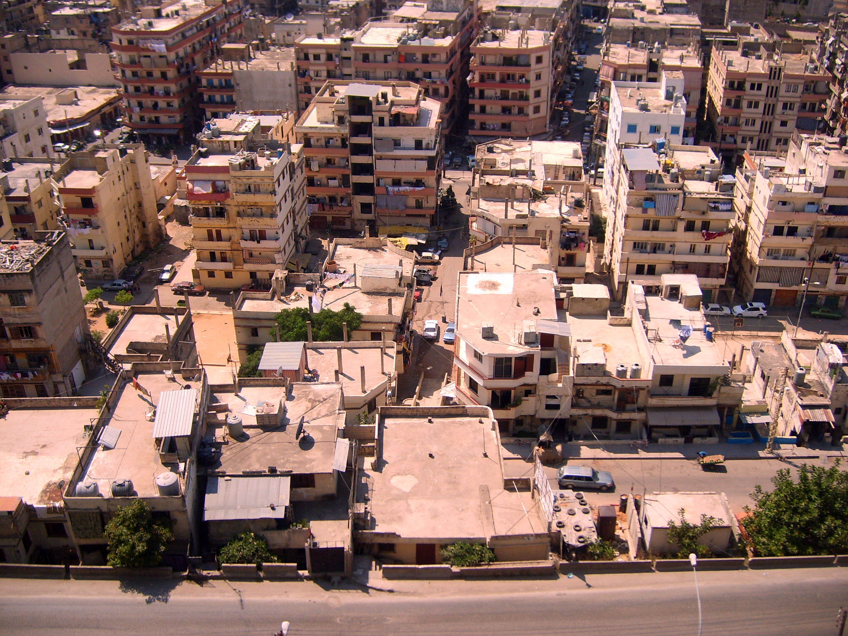 Bab al-Tabbaneh district of Tripoli, Lebanon, seen from Jabal Mohsen.